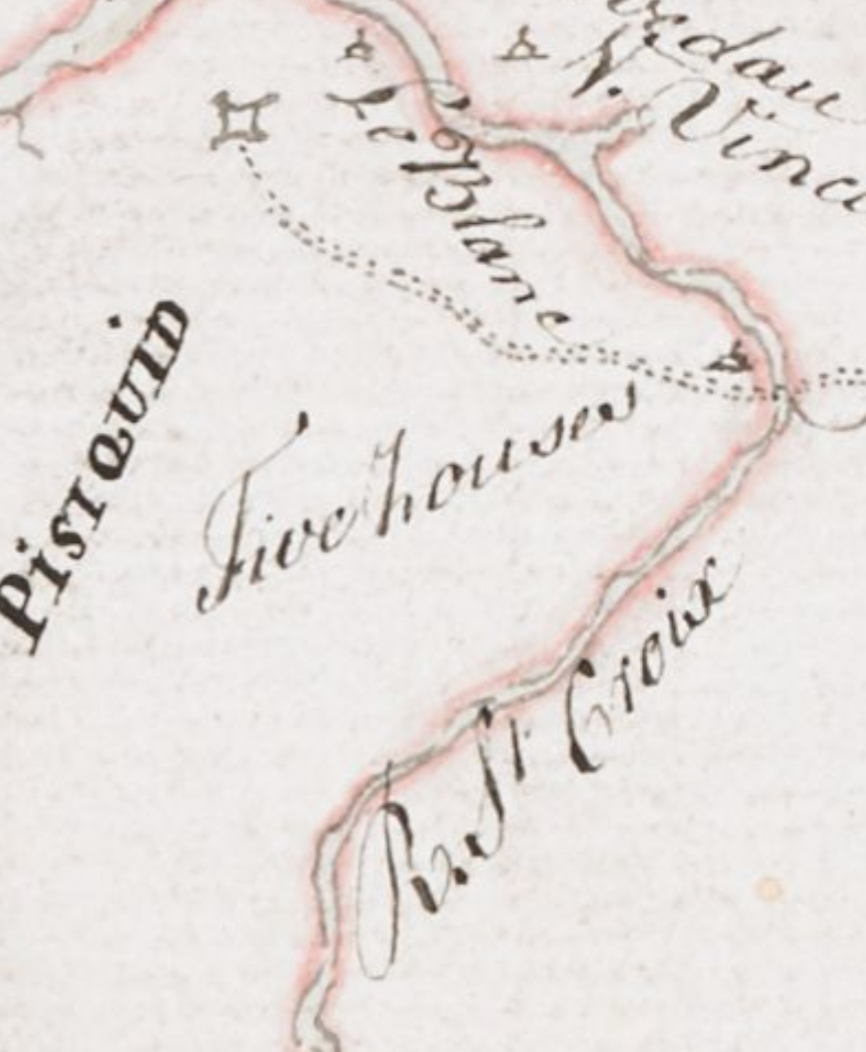 Five Houses by John Brewse (inset of A map of the surveyed parts of Nova Scotia, 1756)